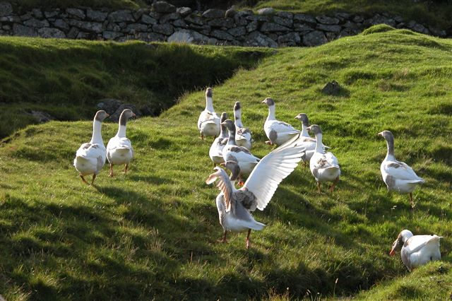 The faroese goose (The Viking Goose)